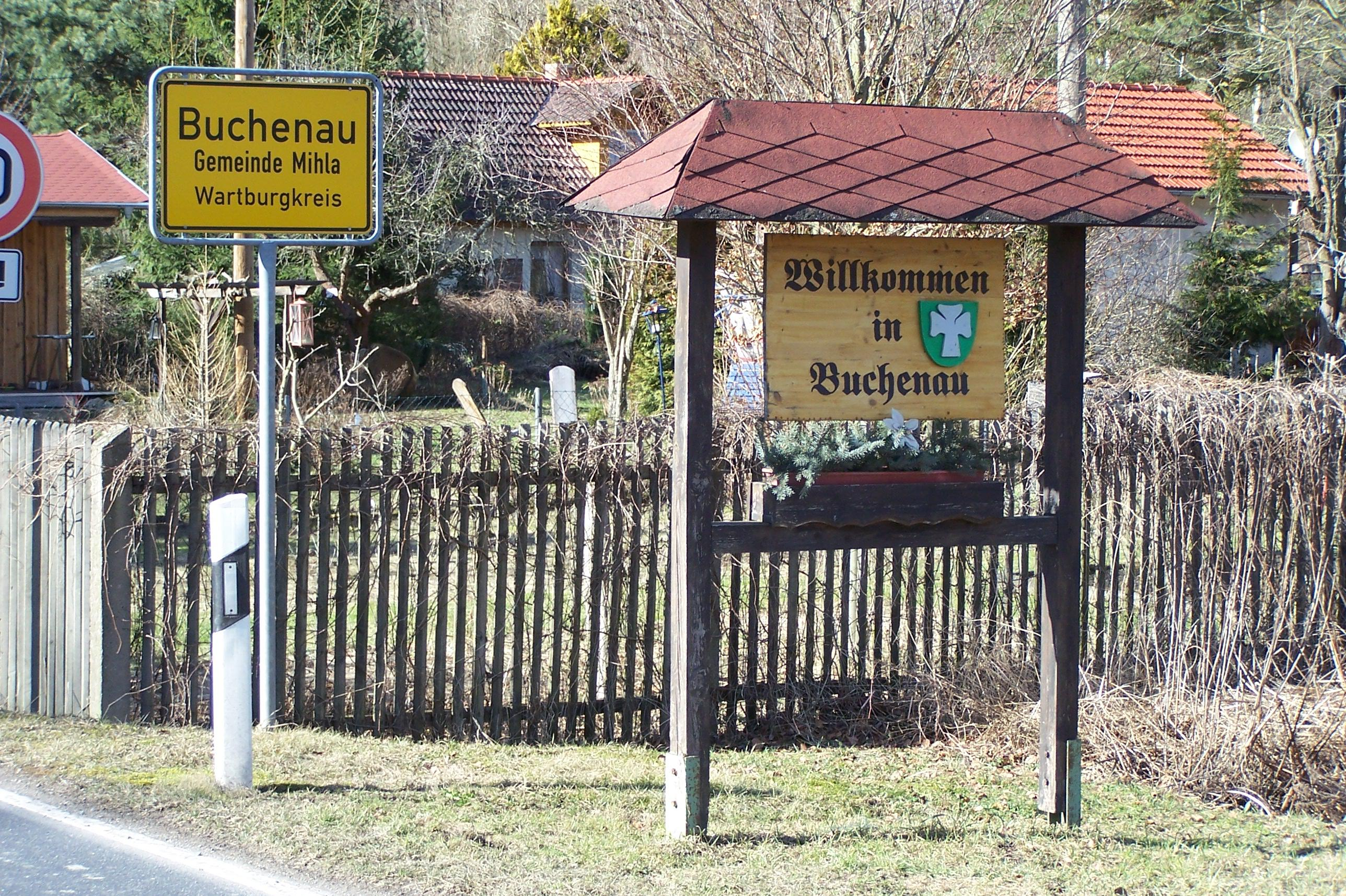 In Buchenau village.